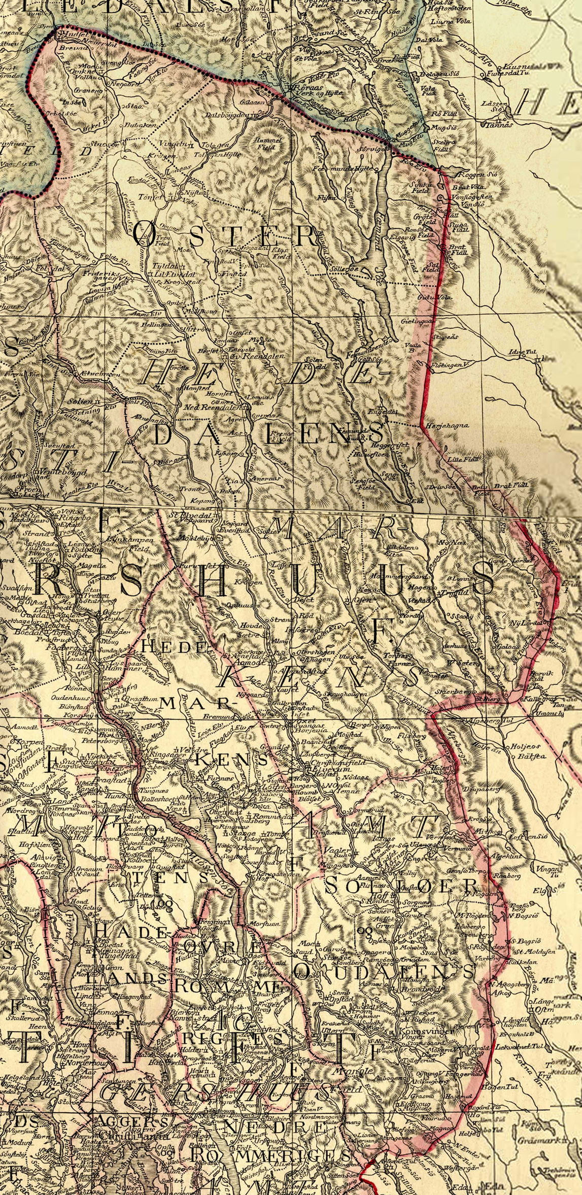 Map over Southern Norway in 1785 drawn by Christian Jochum Pontoppidan.